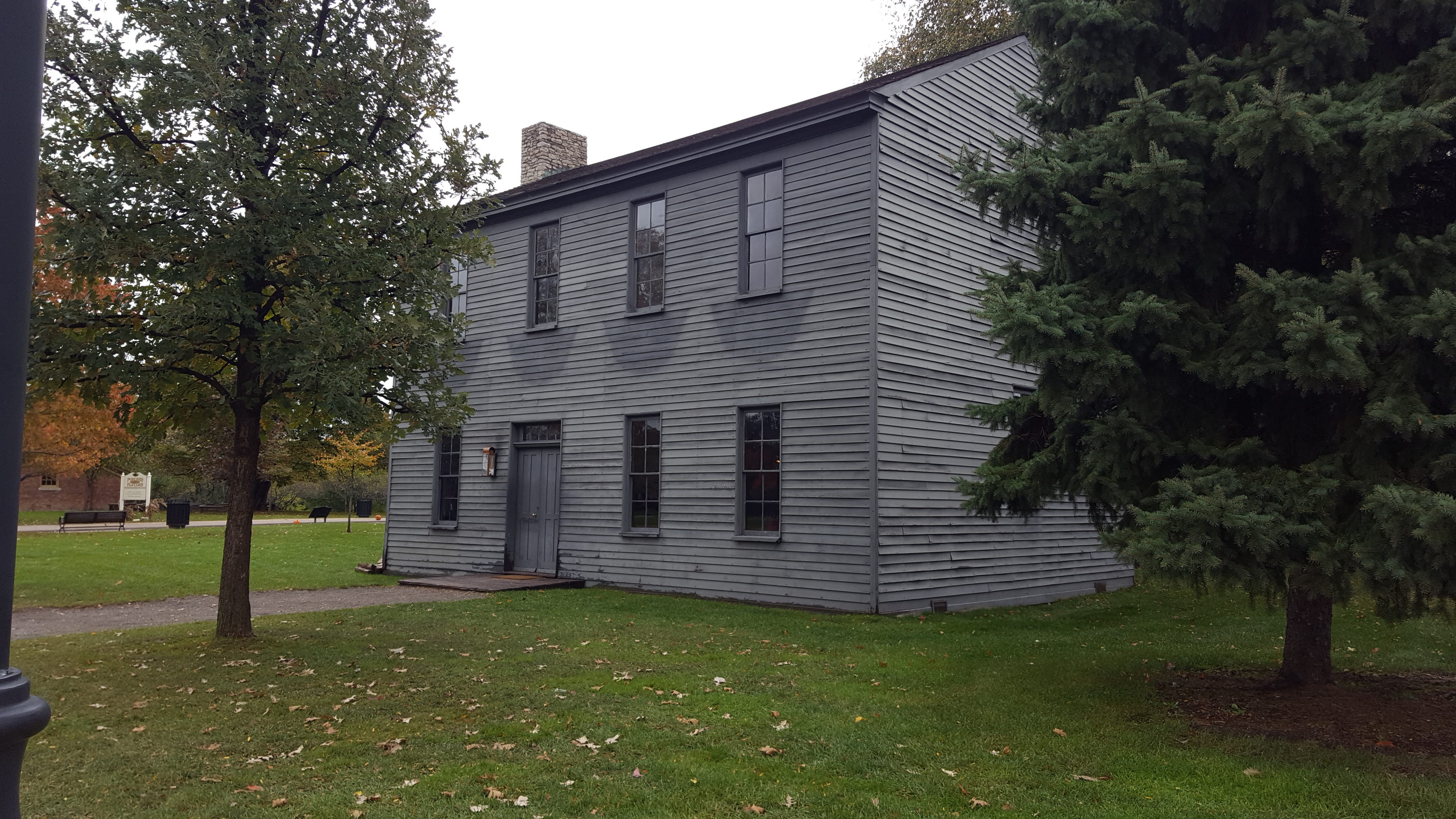 Logan County Courthouse - originally in Lincoln, Logan County, Illinois. Moved to Greenfield Village in Dearborn, Michigan in 1929 [1] One of the places Abraham Lincoln worked as a lawyer early in his career.